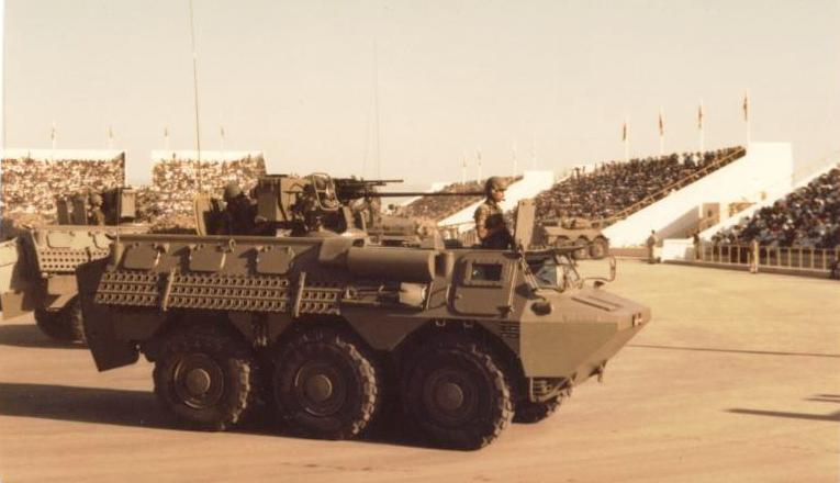 VAB Personnel Carriers of the Royal Guard.